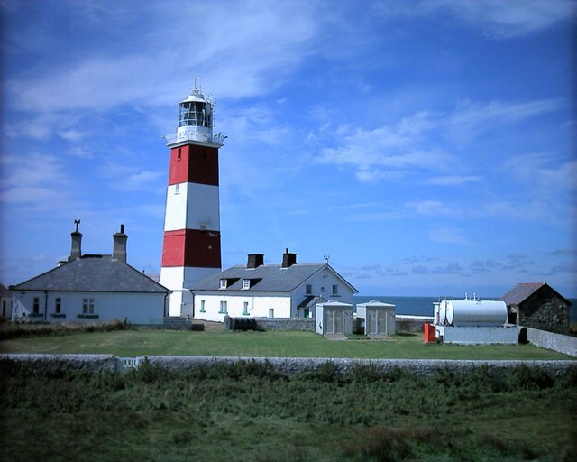 Bardsey lighthouse. Unusual square lighthouse which was manned until 1987 - now automatic.